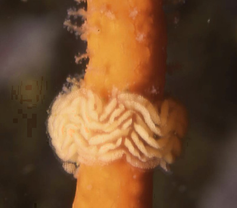 A photograph of the egg ribbon of the whip fan nudibranch, Tritonia nilsodhneri, taken in about 24m of water off the Cape Peninsula using a Nikonos V camera. Actual size of image about 10mm X 10mm.